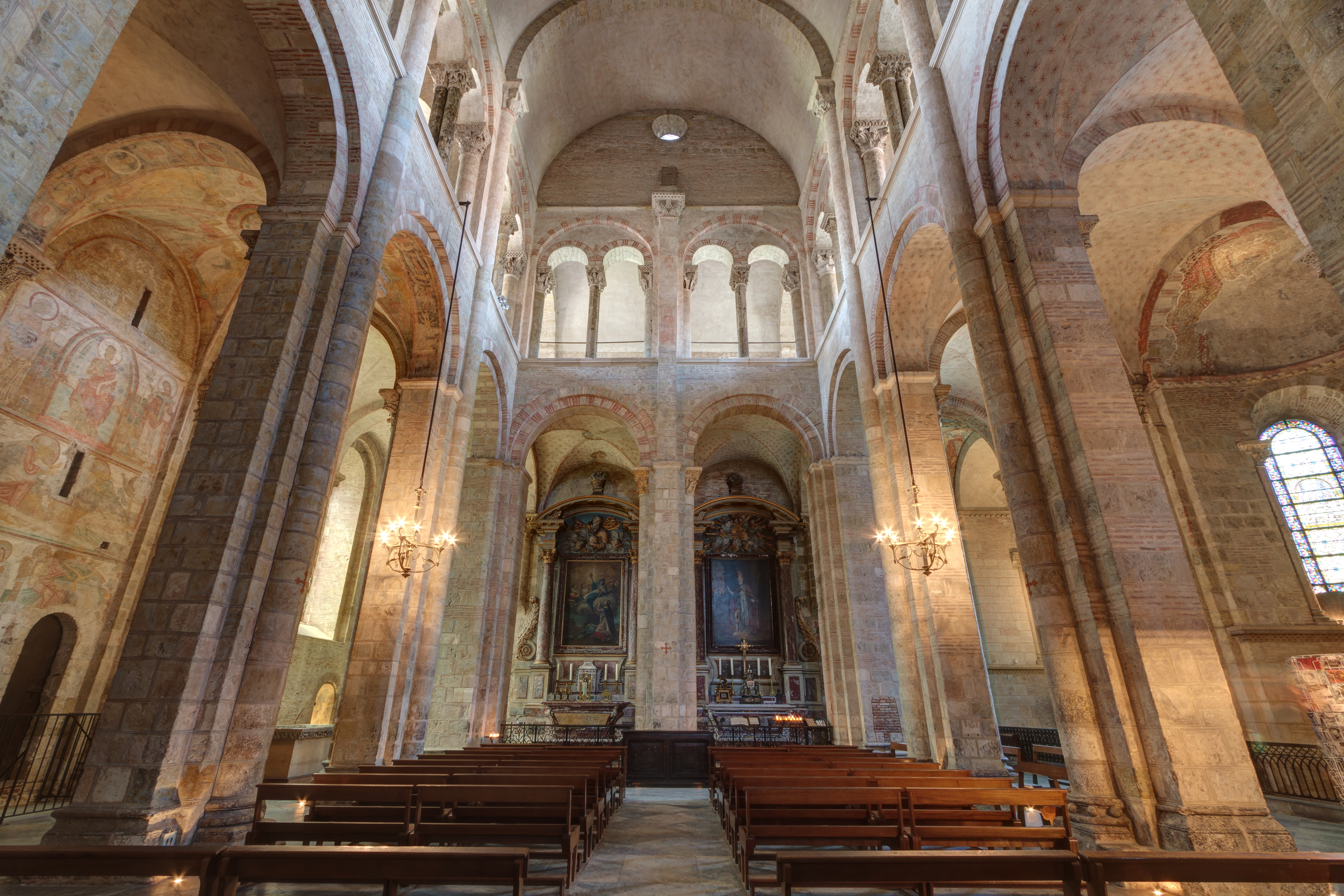 North transepts of Basilique Saint-Sernin in Toulouse